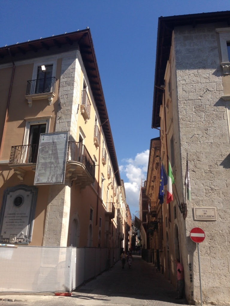 L'Aquila